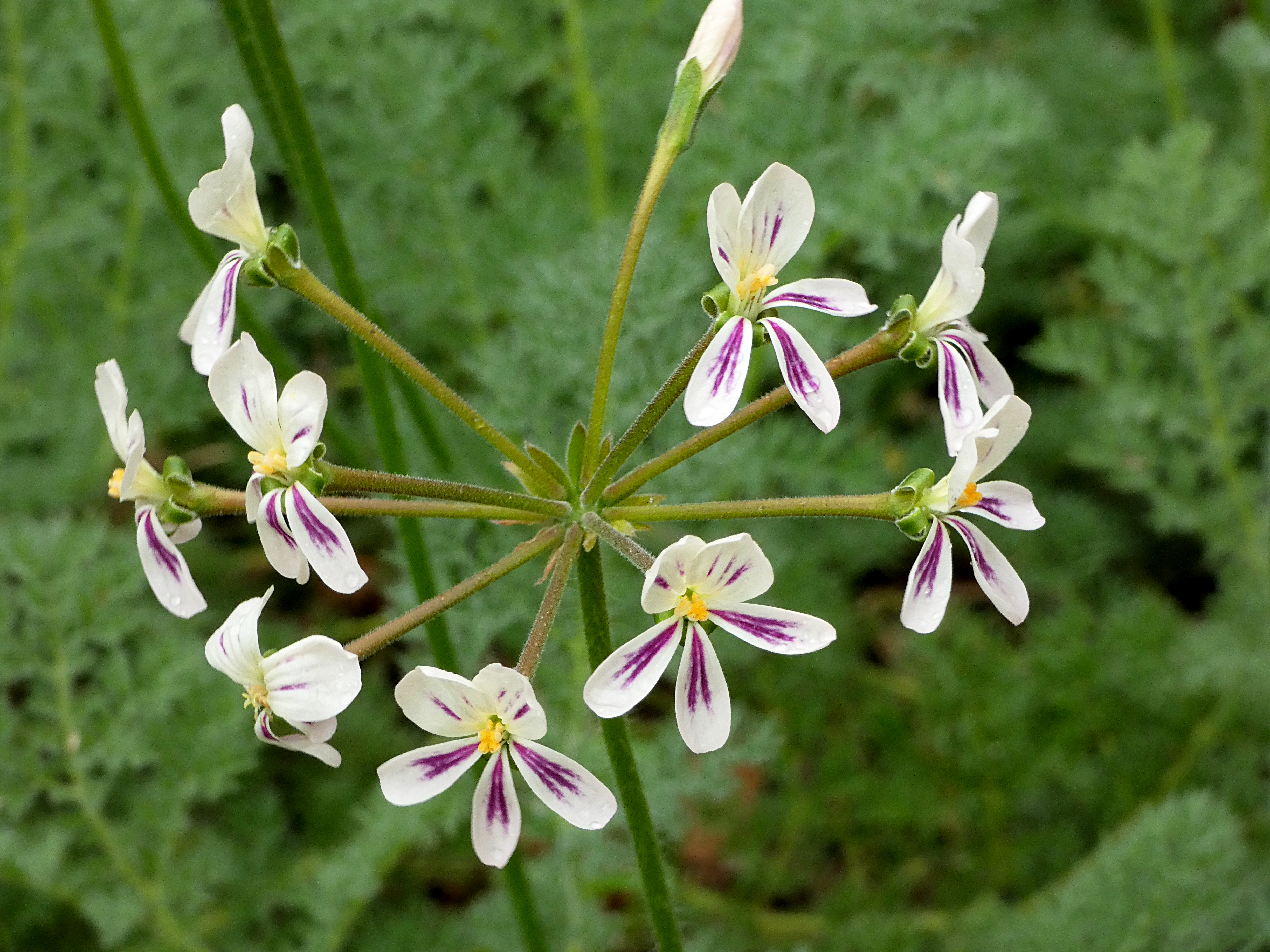 Pelargonium triste, collection number 1999-726, cultivated and photographed at the Botanical Garden of Stellenbosch, Western Cape, South-Africa